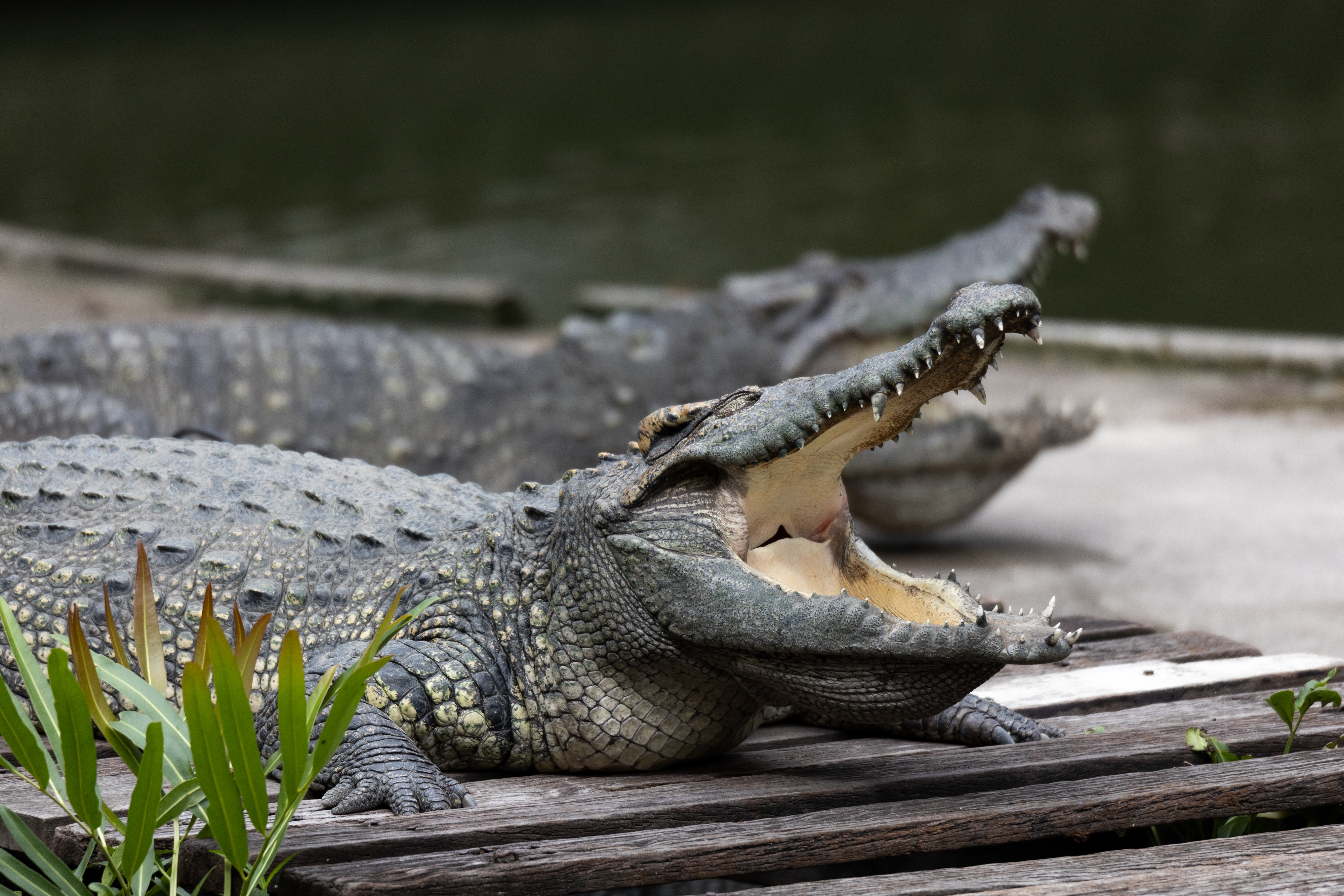 Crocodylus siamensis at Samphran Elephant Ground & Zoo, Sam Phran District, Nakhon Pathom.